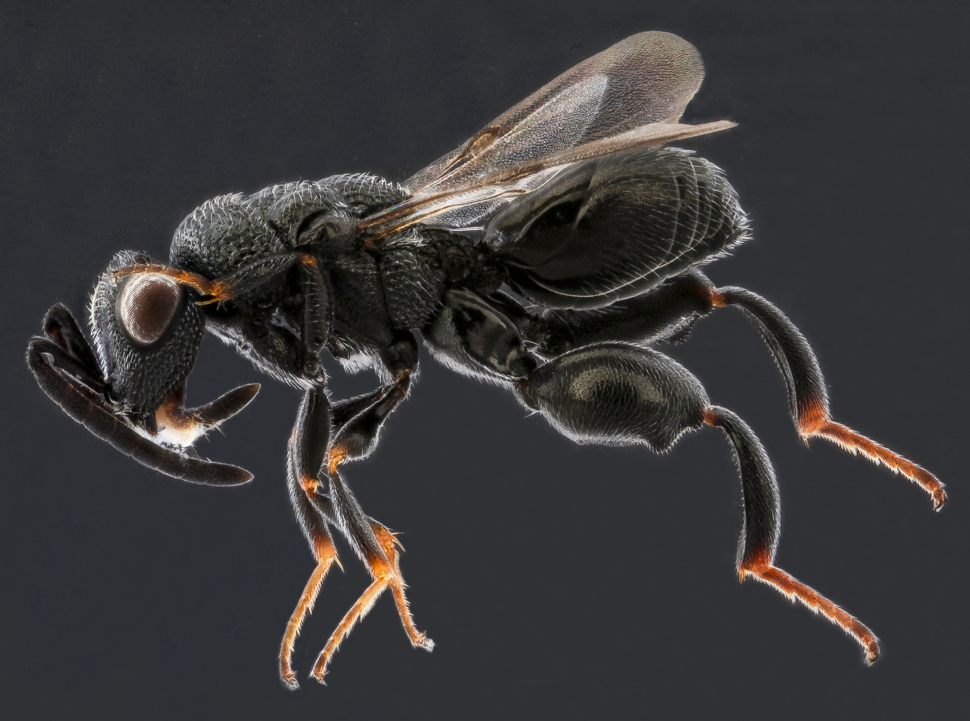 May or may not be a parasitic wasp, could be an aculeate, Dominican Republic, photographed floating in hand sanitizer in a quartz cuvette. Roger Burks via Doug Yanega identified this as Psilochalcis